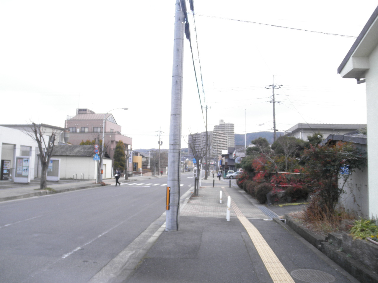 Kamotown Sato 西鳥口 Kizugawacity Kyotopref Naraprefectural and Kyotoprefectural road 47 Tenri Kamo Kizu line No,2